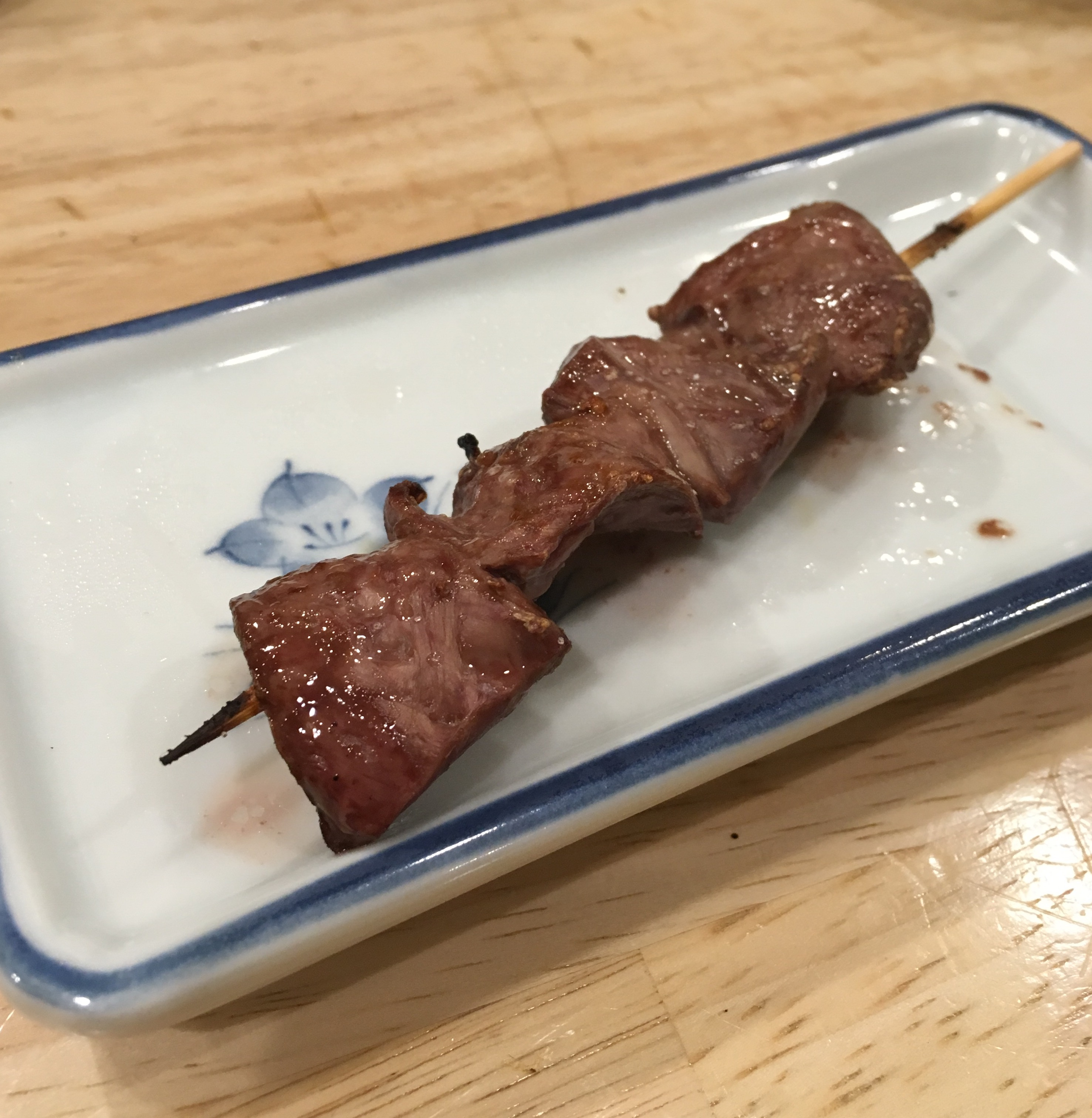 Grilled pig heart skewer